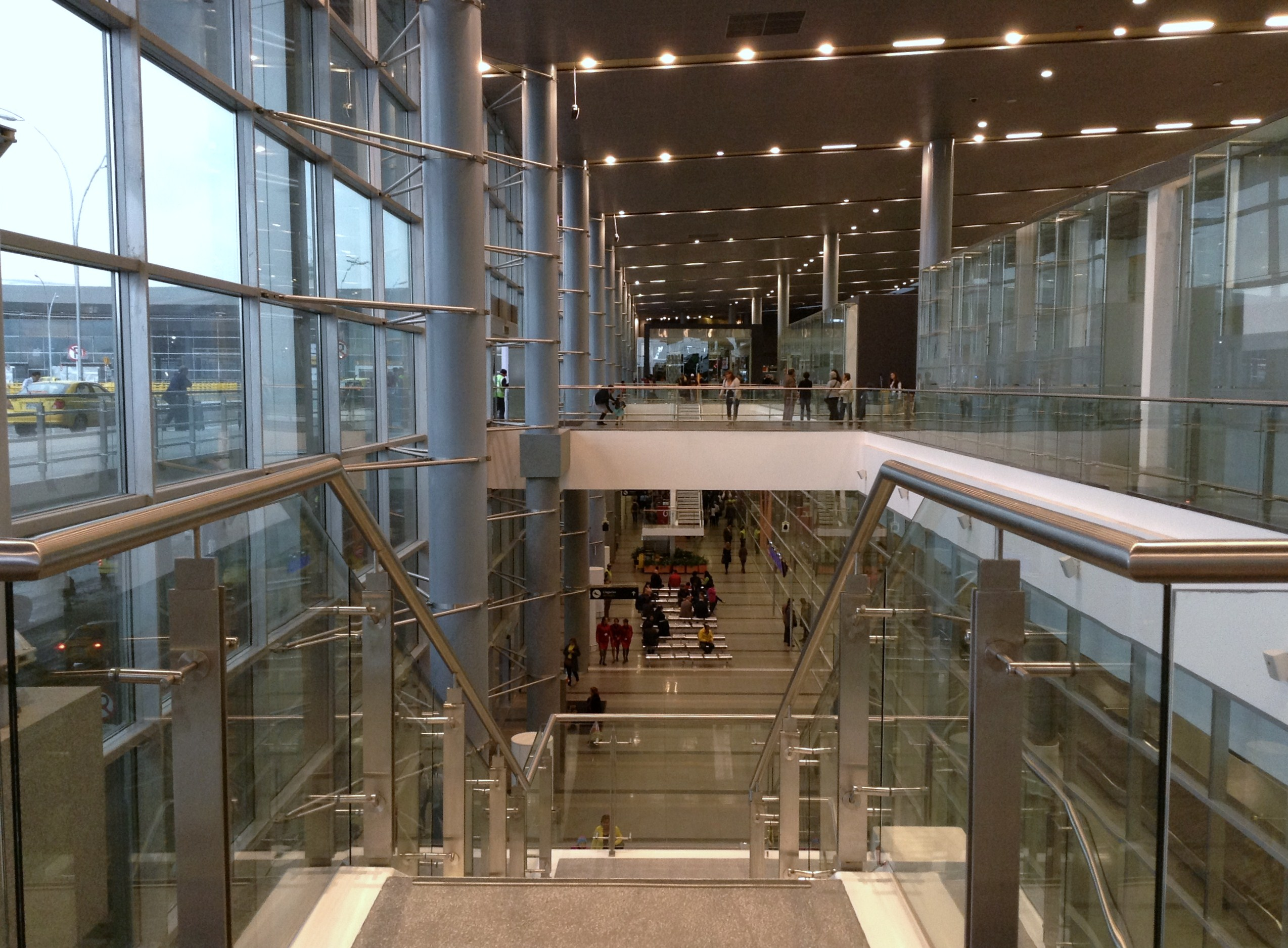 El Dorado International Aiport